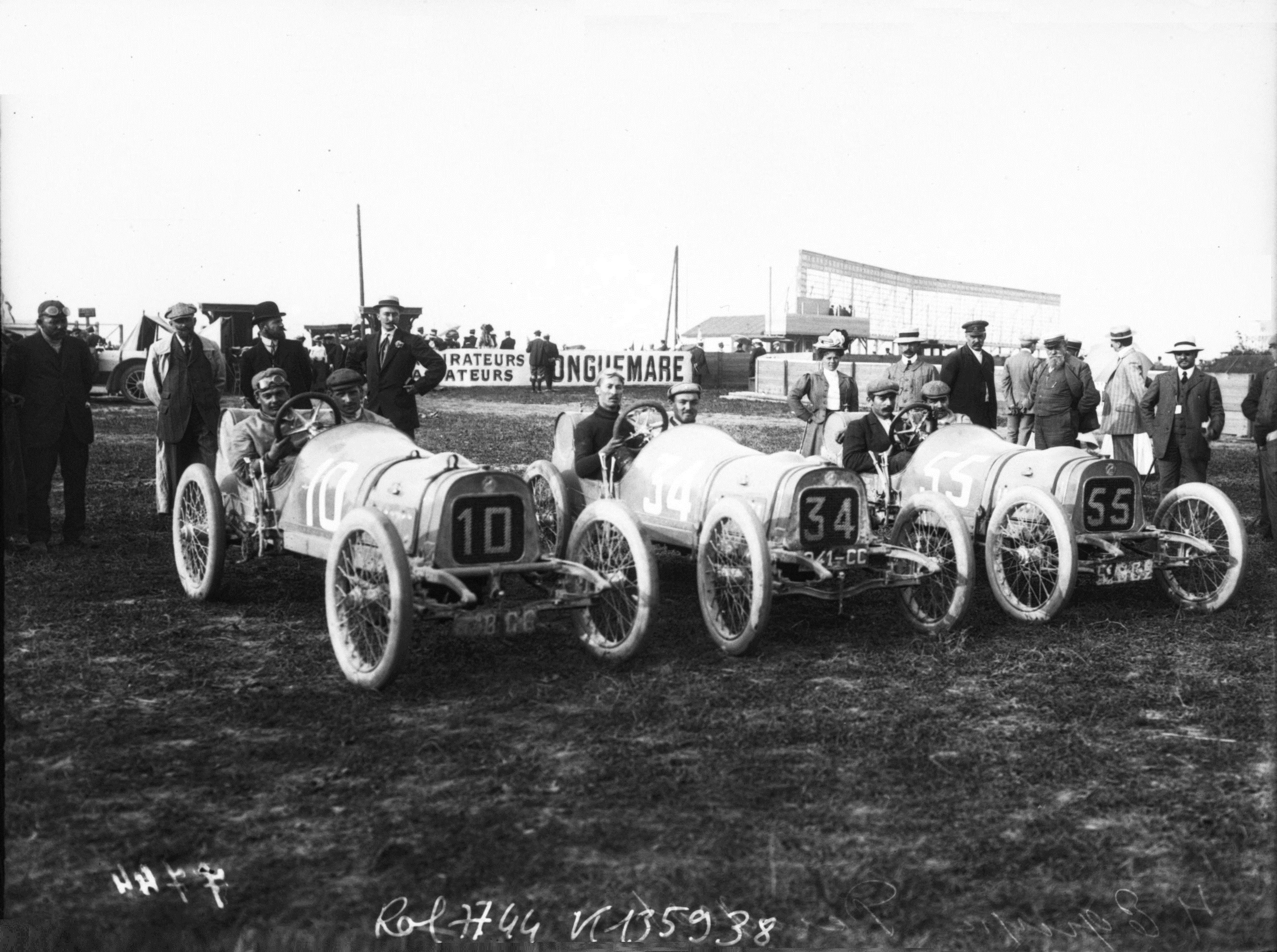 Giosue Guippone (#10), Jules Goux (#34) and Georges Boillot (#55) in Lion-Peugeots at the 1908 Grand Prix des Voiturettes at Dieppe.